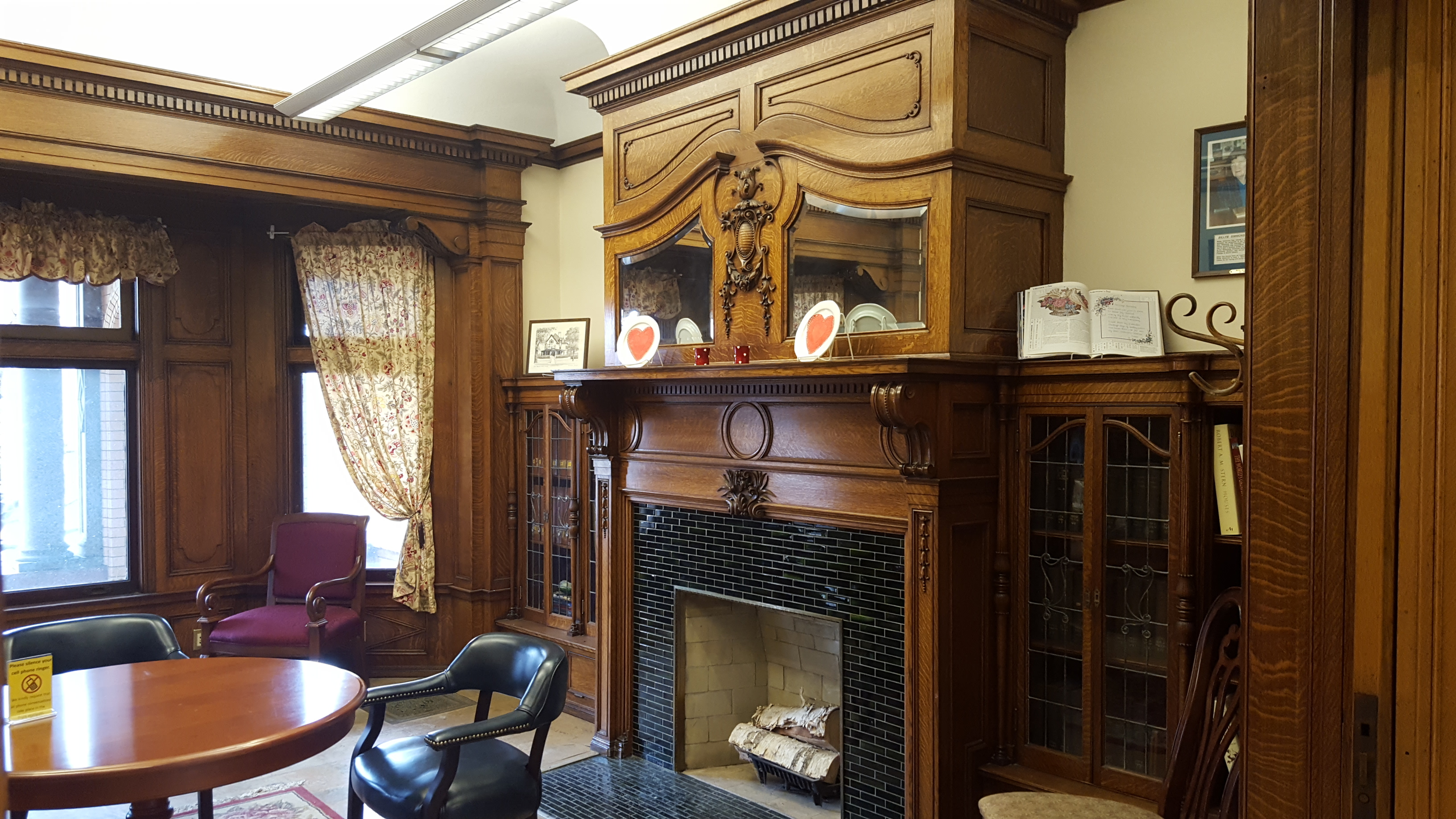 entry. Ford–Bacon House